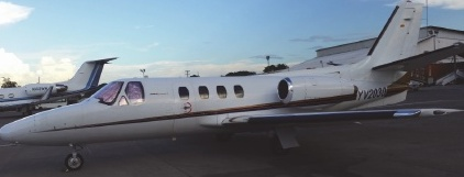 A Cessna Citation 500 registered as YV2030 in Venezuela that flew Efraín Antonio Campo Flores and Francisco Flores de Freitas to Haiti during the Narcosobrinos incident.